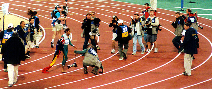 Cathy Freeman dodges the media scrum at the end of the 400m final.